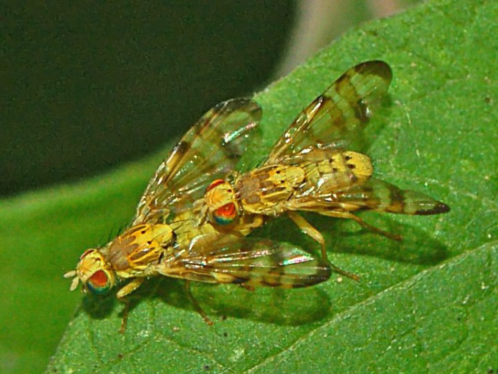 Terellia tussilaginis, mating couple. Val Noci, Genova, Italy